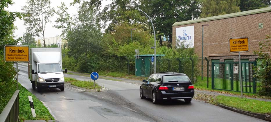 Fürst-Bismarck-Quelle in Reinbek